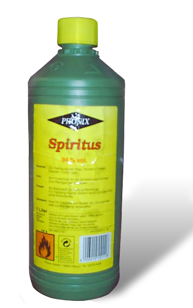 ethanol